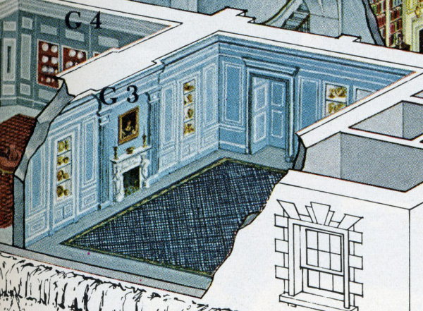 Scan of a cut-away sketch from the 1962 White House guide showing the Vermeil Room showing Stéphane Boudin's blue boiserie treatment of the Vermeil Room.